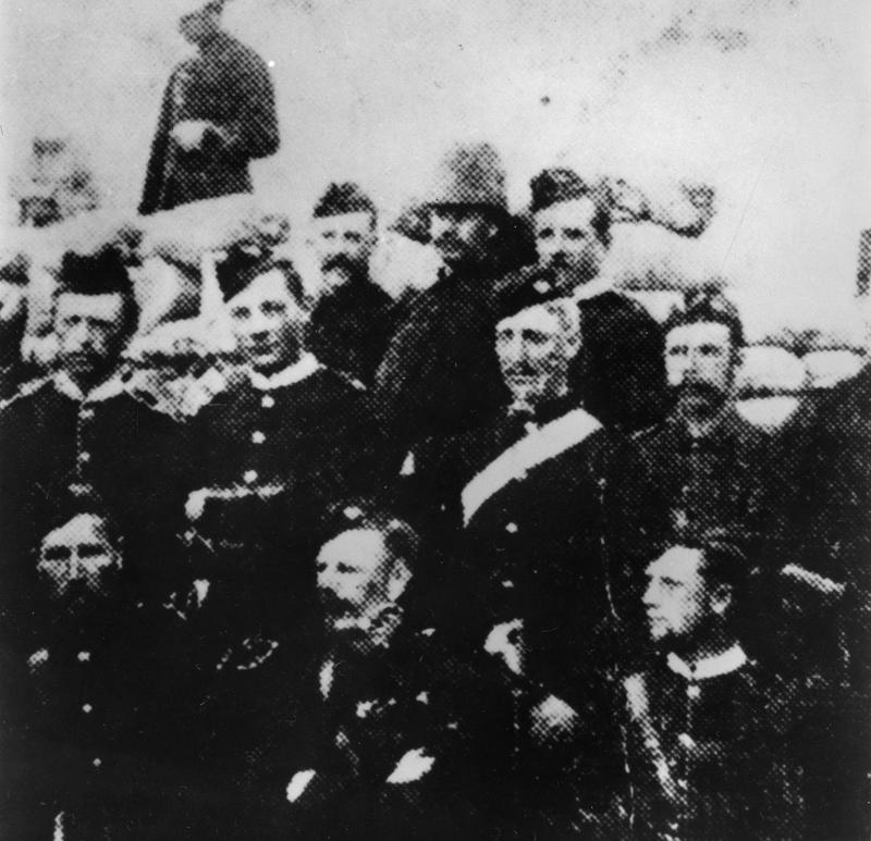 Victoria Cross Winners- Pre 1914. Group portrait including Ferdinand Christian Schiess (in helmet), awarded the Victoria Cross: Zululand, Rorke's Drift Action, 22 January 1865.